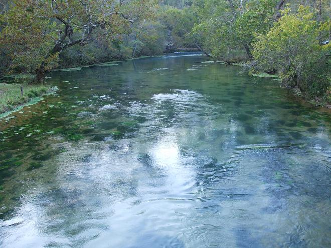 Big Spring branch in Missouri at low flow